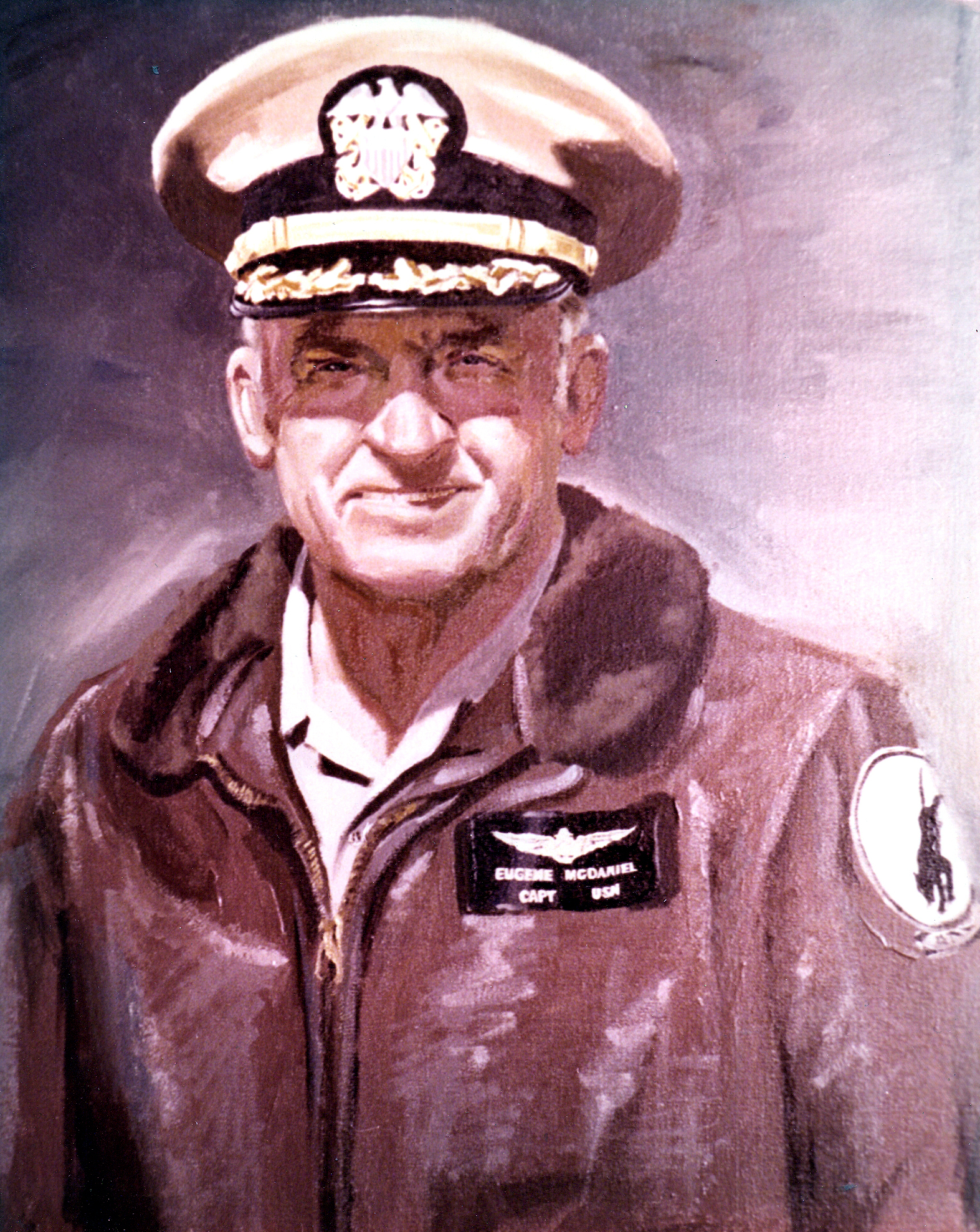 Portrait of Captain Eugene "Red" McDaniel painted by Gerard Bianco while McDaniel was Captain of the USS Lexington. The painting now hangs in the U.S. Naval Museum in Washington, D.C.